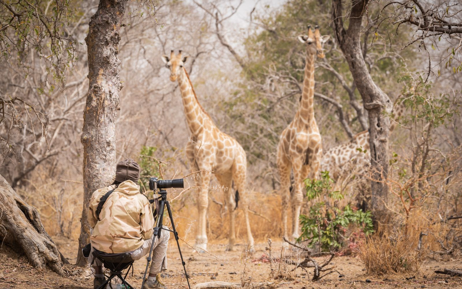 A wildlife photographer at Sumu Wildlife Park, Kafin Madaki in Bauchi state of Nigeria